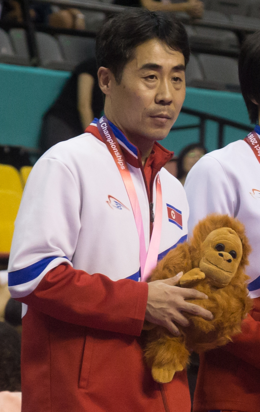 Kim Jin-myong